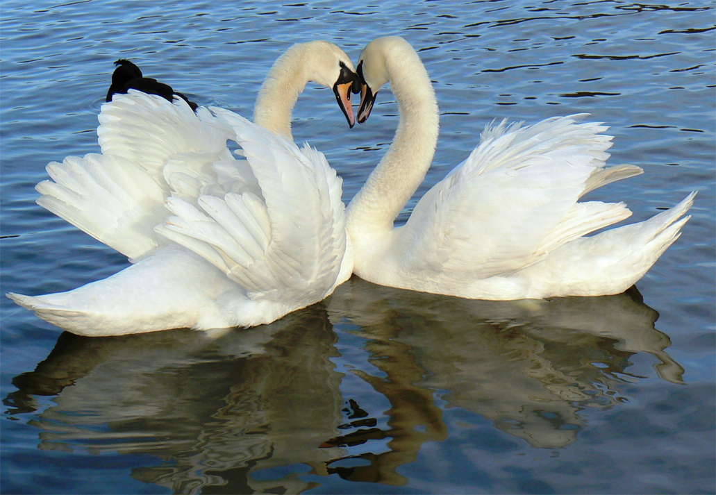 Swans in Springtime, The Lough Cork